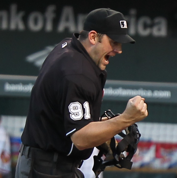 Home plate umpire Brian Knight #91 calls out Derrek Lee #25 of the Baltimore Orioles at home plate after catcher Lou Marson #6 of the Cleveland Indians tagged him out during the fourth inning at Oriole Park at Camden Yards on July 16, 2011 in Baltimore, Maryland.